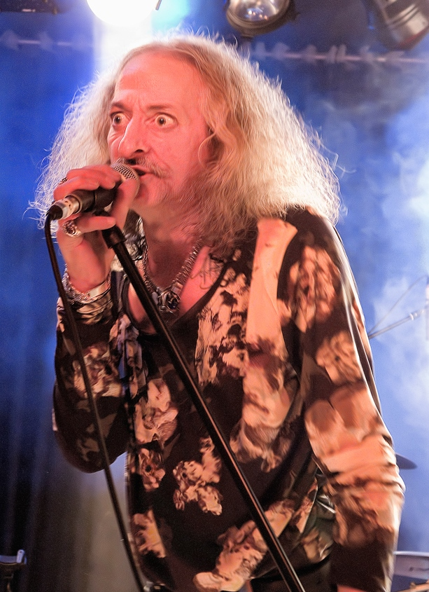 Bobby Liebling, singer of Pentagram, performing live in Madrid 13/10/2013.